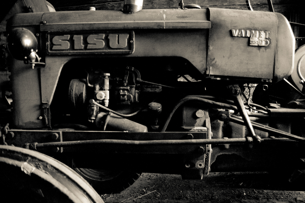 Side view of a Valmet 359 D tractor with Sisu Diesel engine